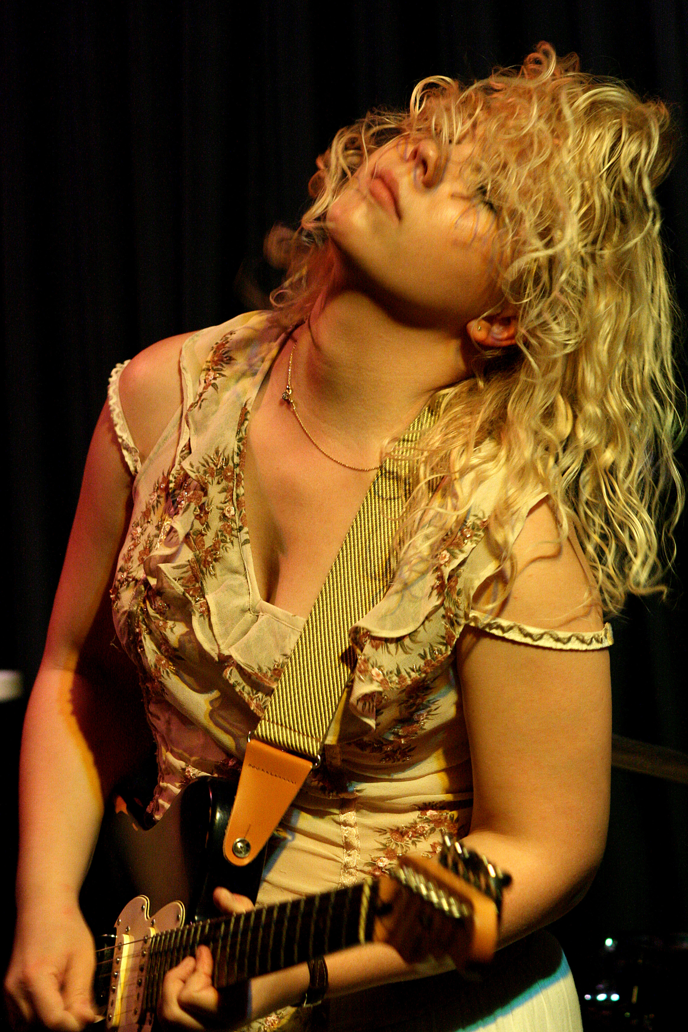 Chantel McGregor live